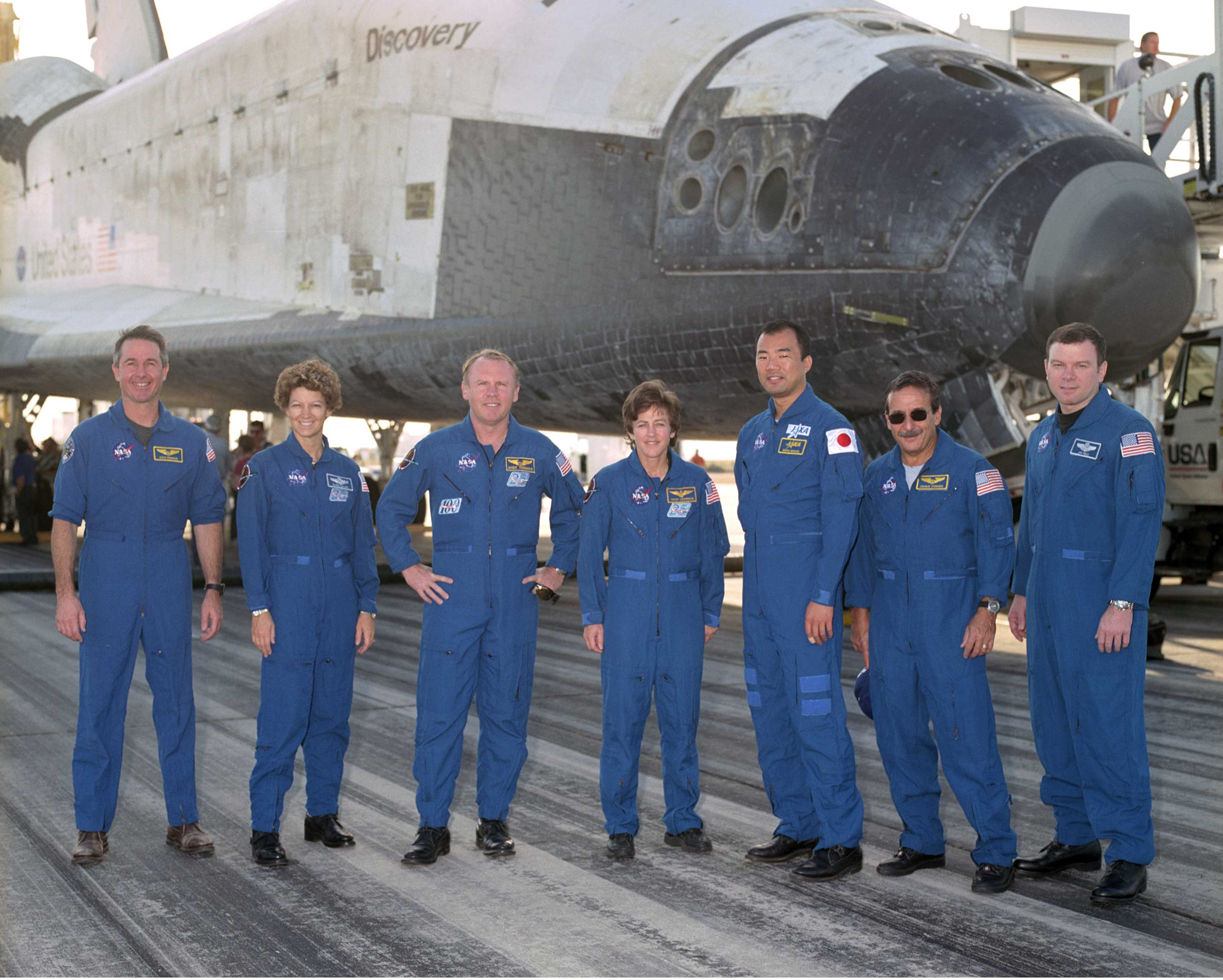 The STS-114 crewmembers gather for a crew photo in front of the Space Shuttle Discovery following landing at Edwards Air Force Base in California. From the left are astronauts Stephen K. Robinson, mission specialist; Eileen M. Collins, commander; Andrew S. W. Thomas, Wendy B. Lawrence, Soichi Noguchi representing Japan Aerospace Exploration Agency (JAXA), Charles J. Camarda, all mission specialists; and James M. Kelly, pilot. The landing concludes a historic 14-day, Return to Flight mission to the International Space Station.